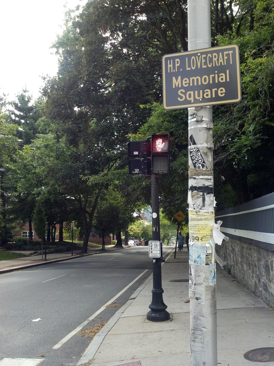 H. P. Lovecraft Memorial Square with commemorative sign installed by the City of Providence, Rhode Island at the intersection of Angell St and Prospect St, near Brown University. This photograph shows the view looking westbound (toward Downtown) along Angell St.